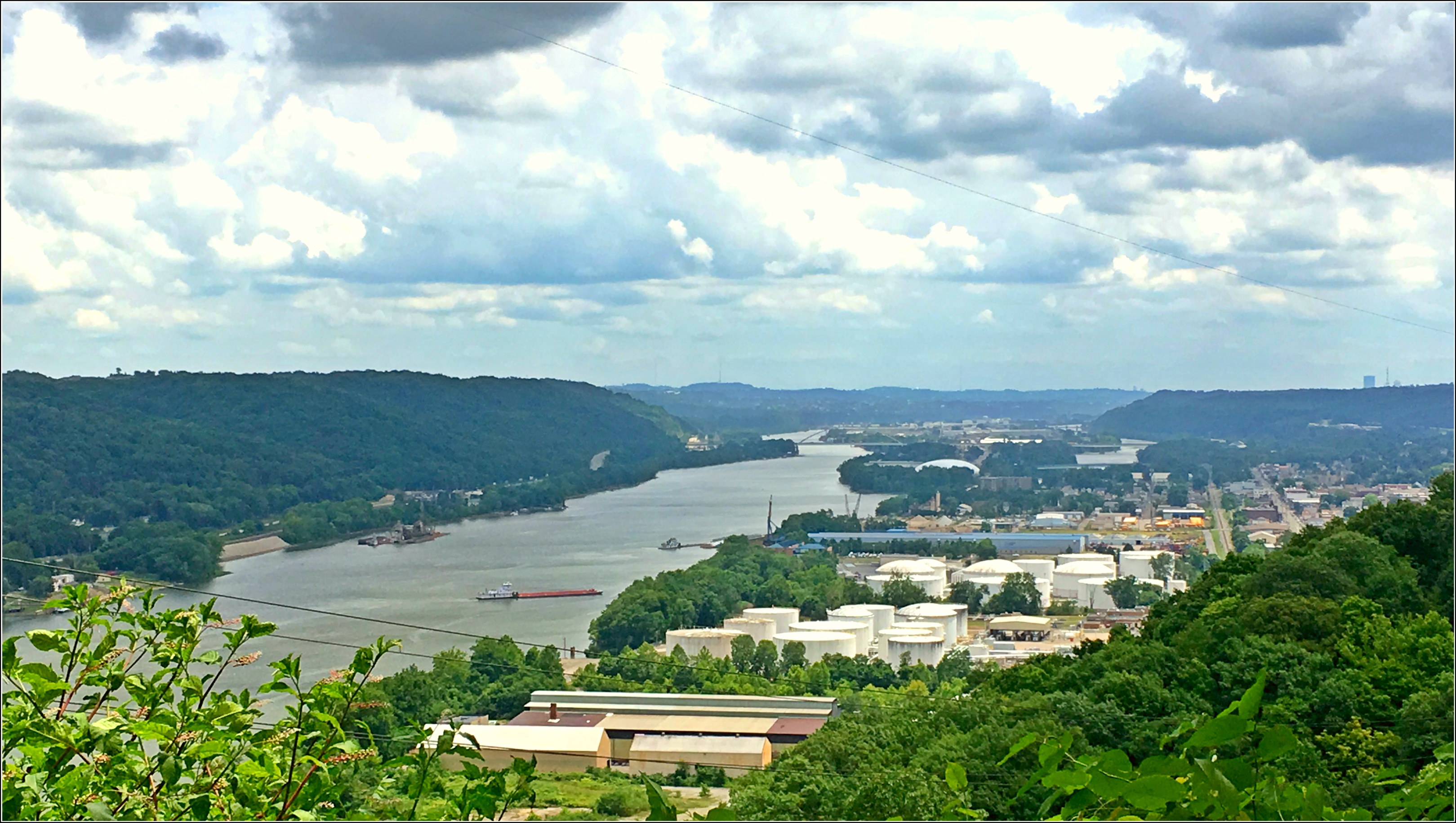 The town of Coraopolis and its industries along the Ohio River, in Allegheny County, Pennsylvania.